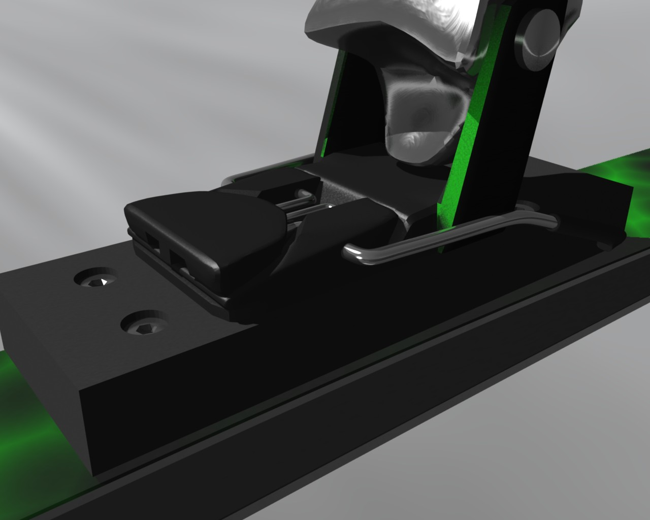 Closed ski-stopper